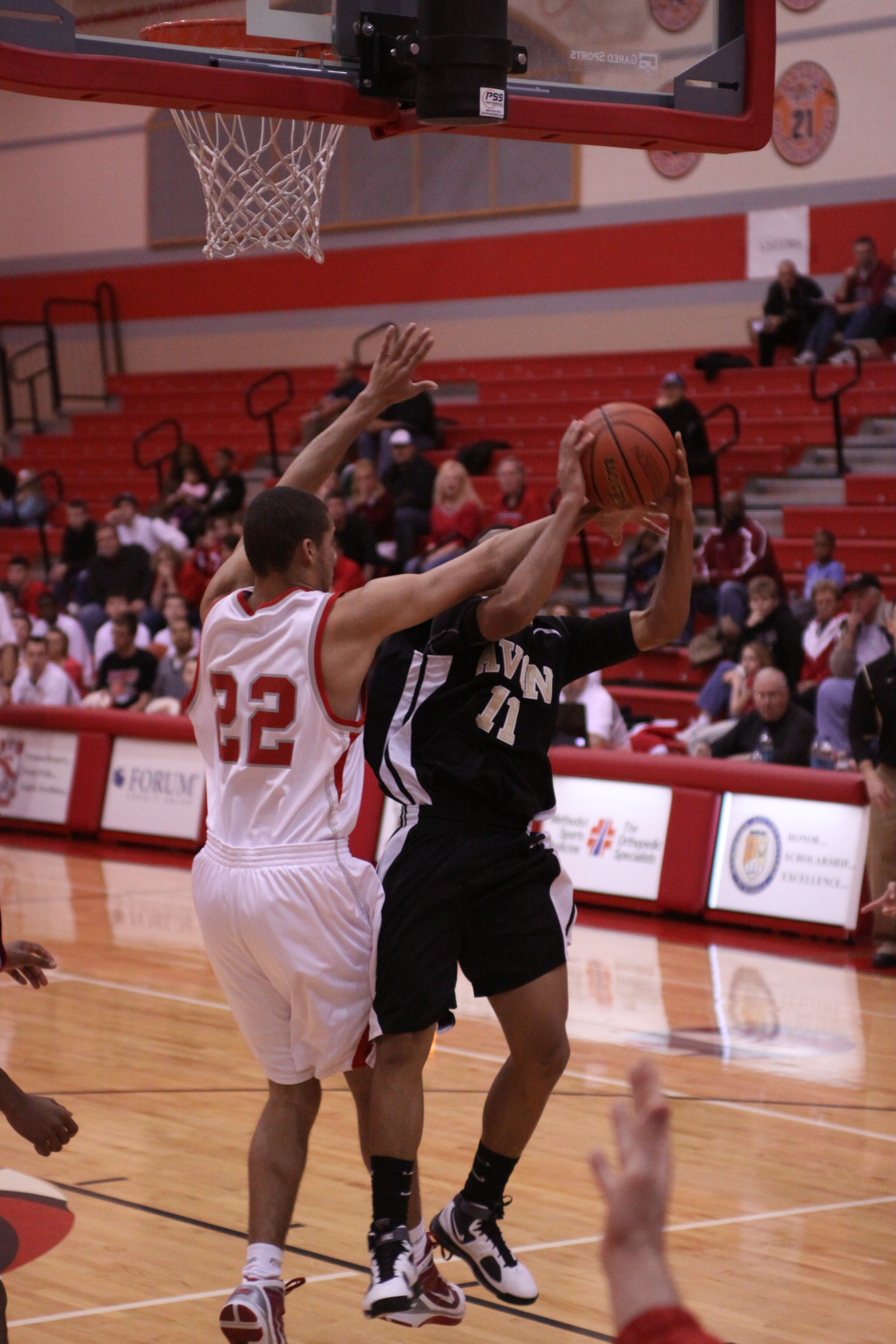 personal foul